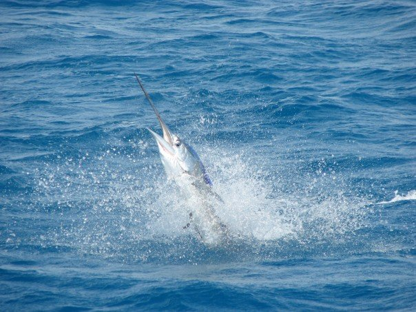 Atlantic sailfish (Istiophorus albicans), Miami, Florida